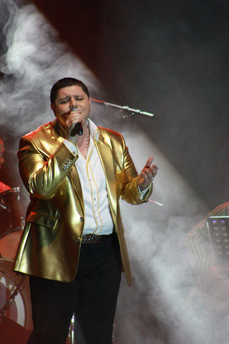 Armenian singer Armenchik in Beirut, Lebanon in 2010